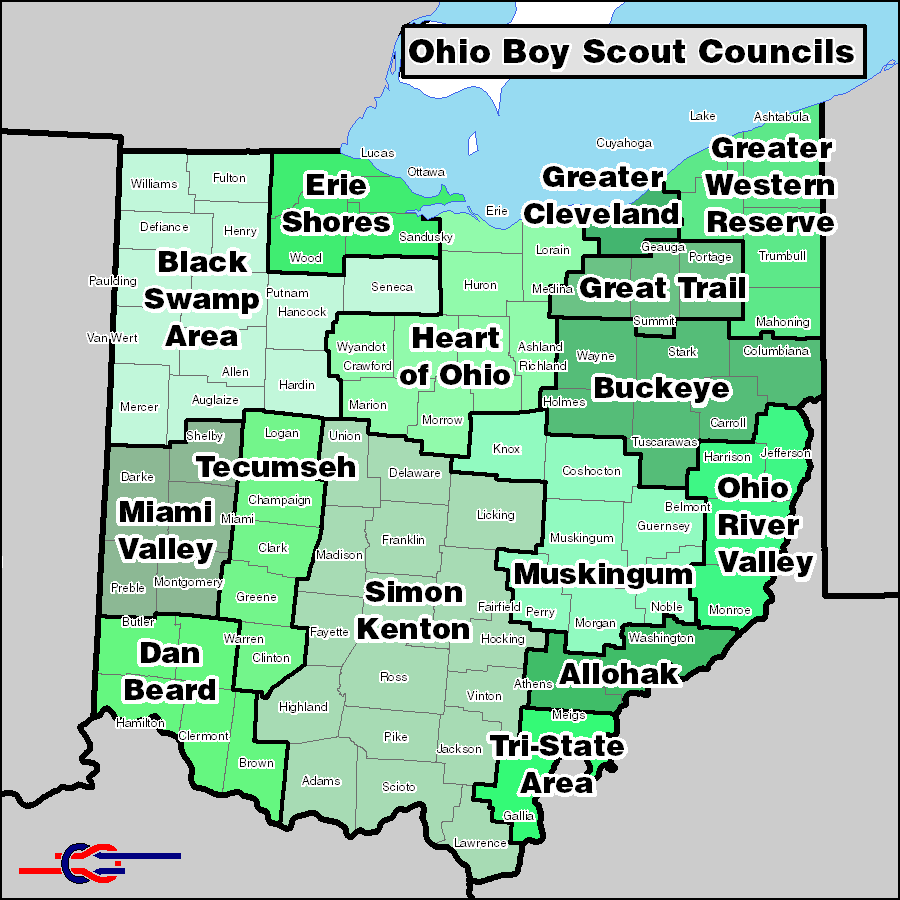 Ohio BSA Councils - Map created using boundary information publicized by the relevant BSA councils. US Census TIGER data used for county and state lines. Council divisions are exact where they coincide with county lines and approximate in other areas. All councils on this map are in the central region.